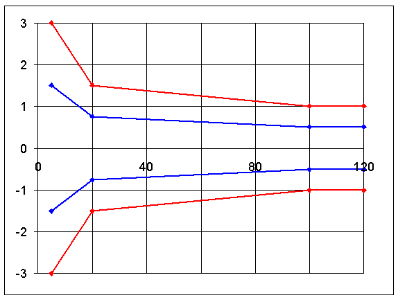 Graph of voltage measurement error in Class 0.5 and 1 current transformers (CTs).